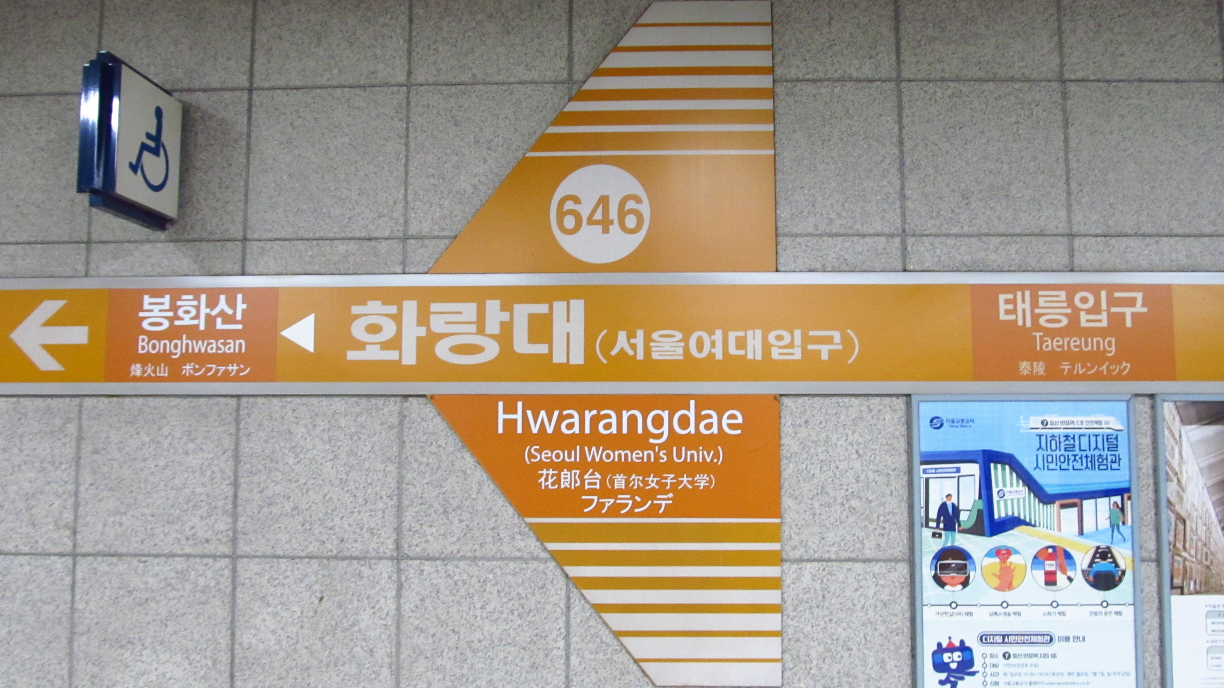 A sign of Hwarangdae Station on Seoul Subway Line 6